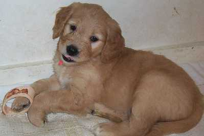 Goldendoodle pup 7 weeks old